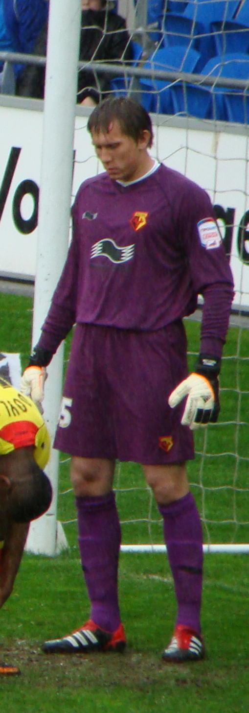 09/04/12 Cardiff v Watford, Championship, Cardiff City Stadium, Cardiff, Wales